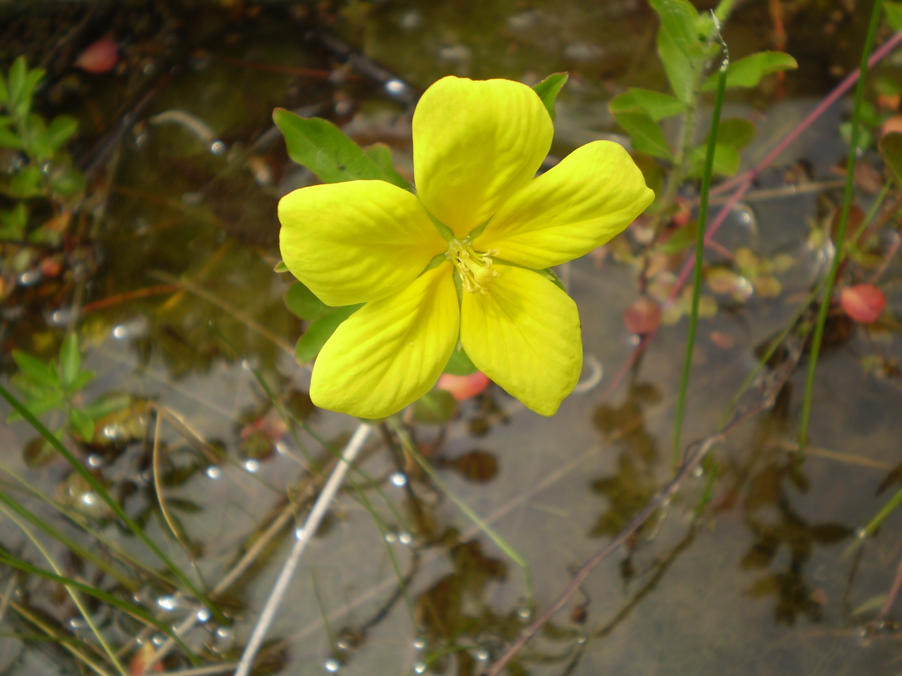 Ludwigia grandiflora subsp. grandiflora(Oobana Mizukinbai)